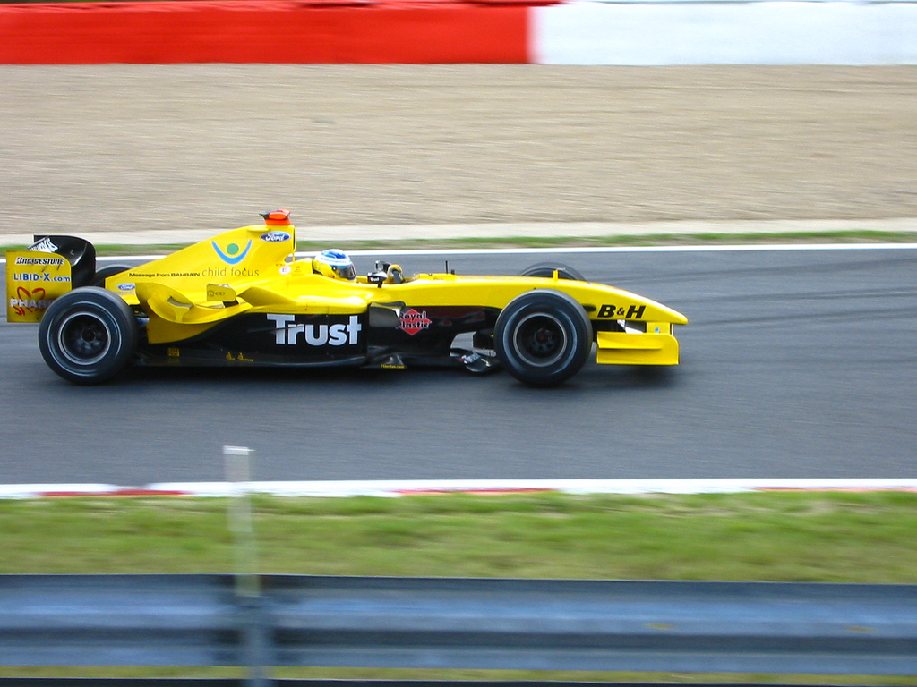 Nick Heidfeld driving for Jordan Grand Prix at the 2004 Belgian Grand Prix.